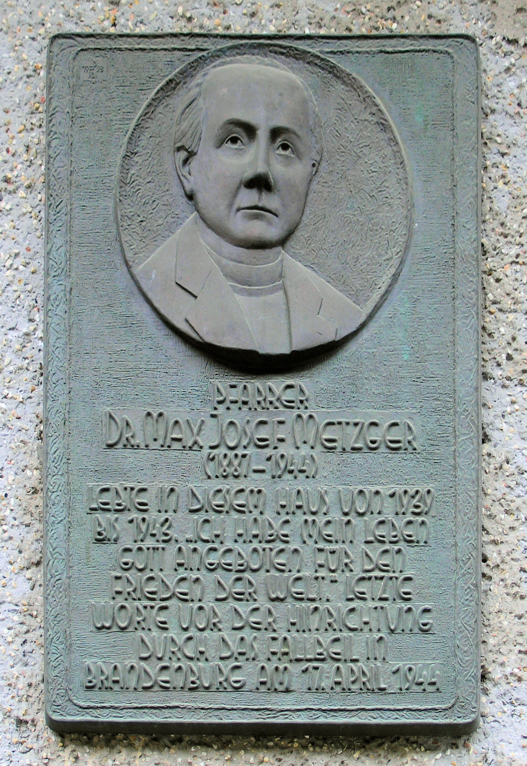 Memorial plaque, Max Josef Metzger, Willdenowstraße 8, Berlin-Wedding, Germany